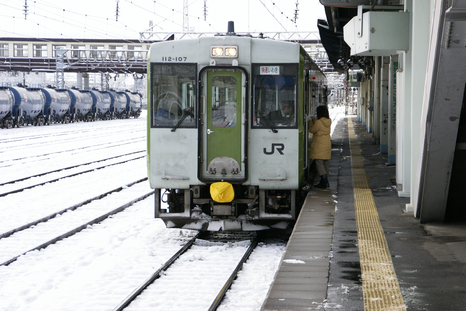 JR East KiHa 110 series 2-car DMU led by KiHa 112-117 at Koriyama Station on a Suigun Line Abukuma rapid service to Iwaki